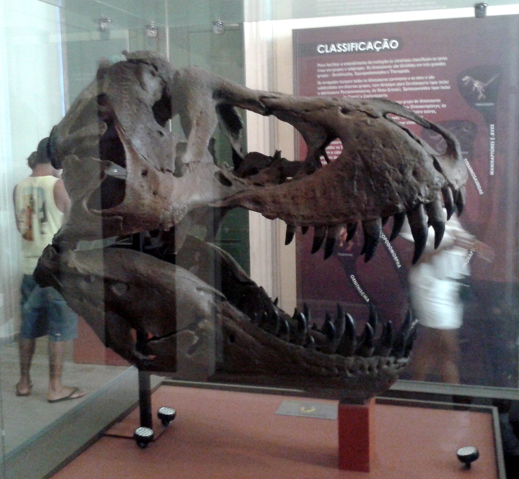 Classification: Sauropsida, Theropoda, Tyrannosauridae Skull length: 1.4 meter; presente piece: 1.2 meter Feeding: carnivore